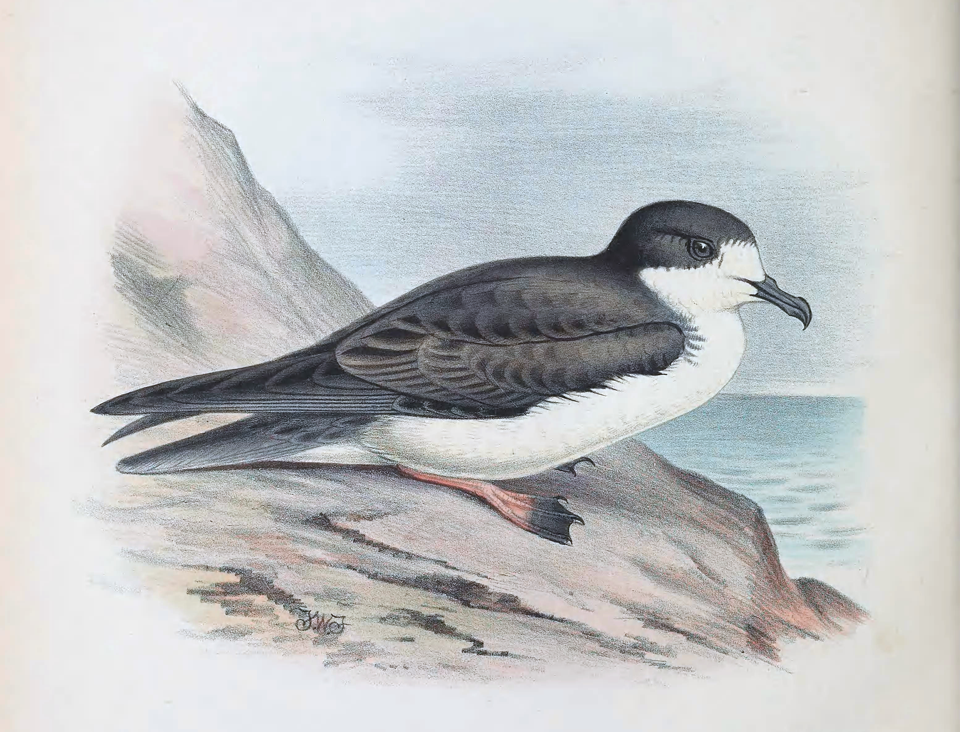 While the plate indicates that it is Pterodroma phaeopygia, the figure depicted is actually the Hawaiian species P. sandwichensis.